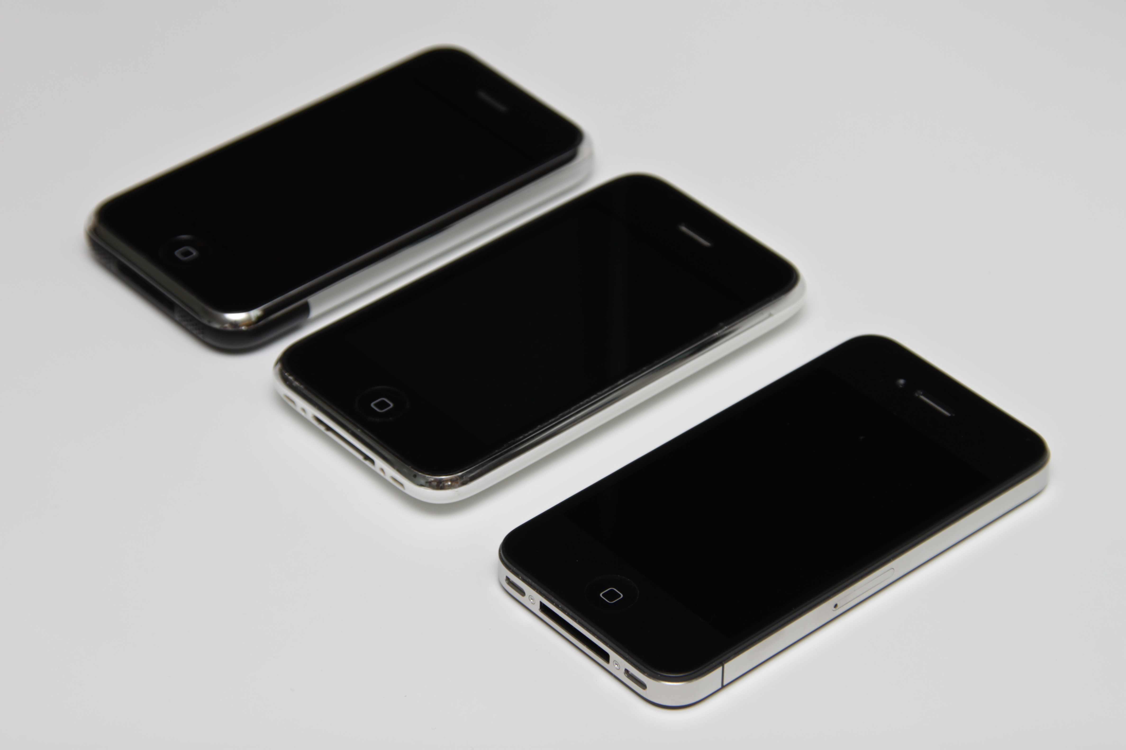 Original iPhone 8GB, iPhone 3G 16GB and iPhone 4 32GB.